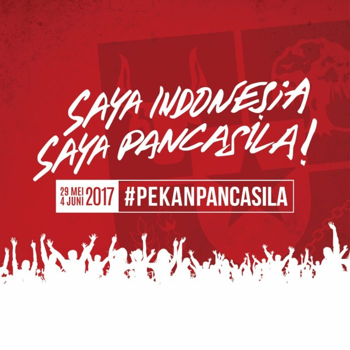 "Saya Indonesia, Saya Pancasila [I'm Indonesia, I'm Pancasila]" banner